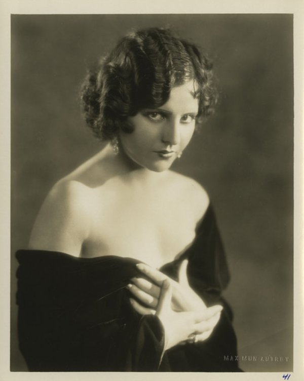 A photograph of Spanish-born American film actress Maria Alba